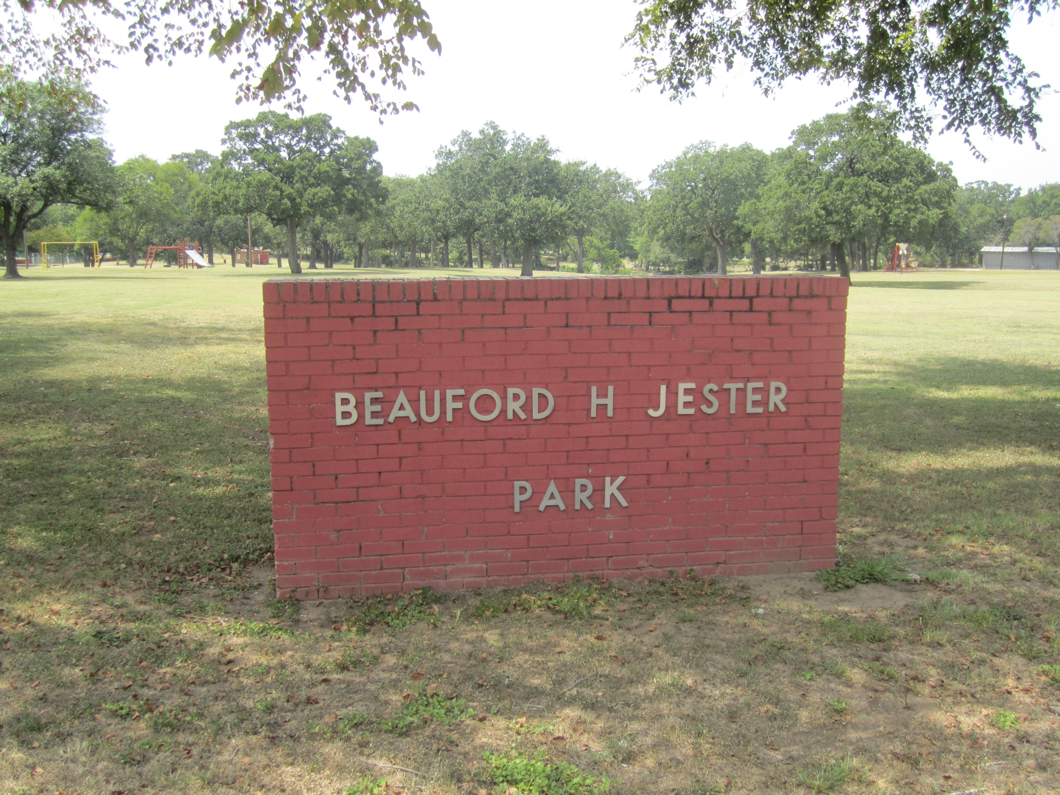 I took photo with Canon camera in Corsicana, TX.